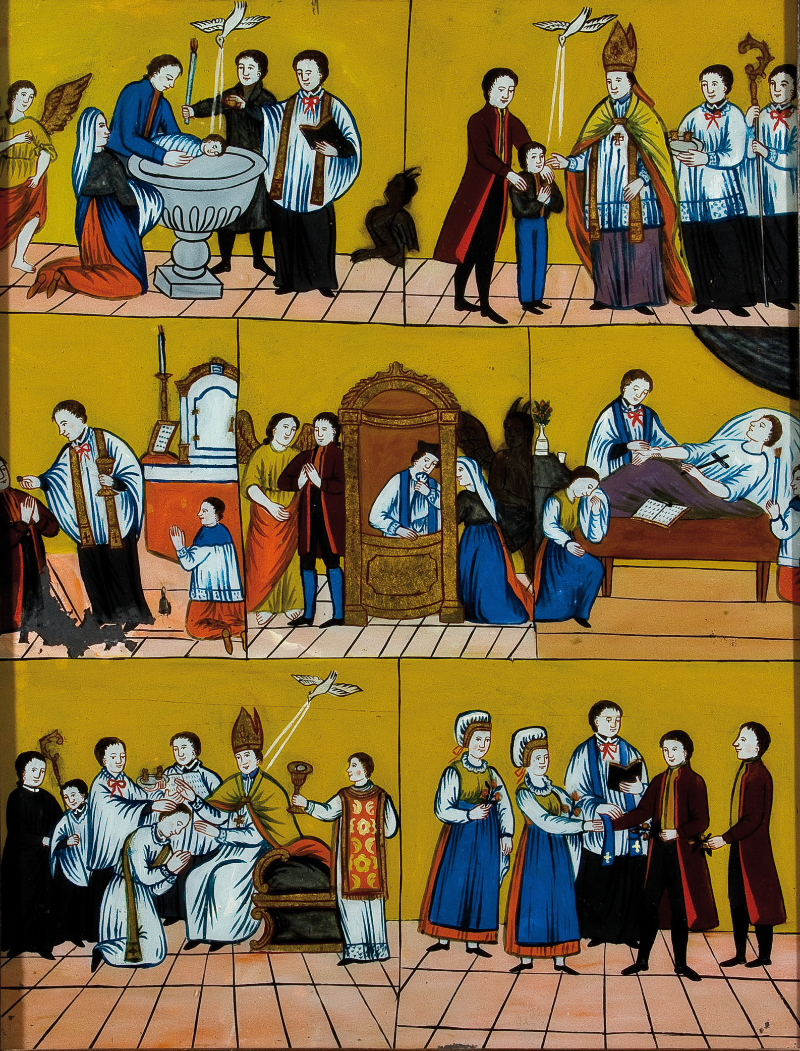 Top row: Baptism, confirmation. Middle row: Communion, confession, last unction. Bottom row: Ordination, marriage.